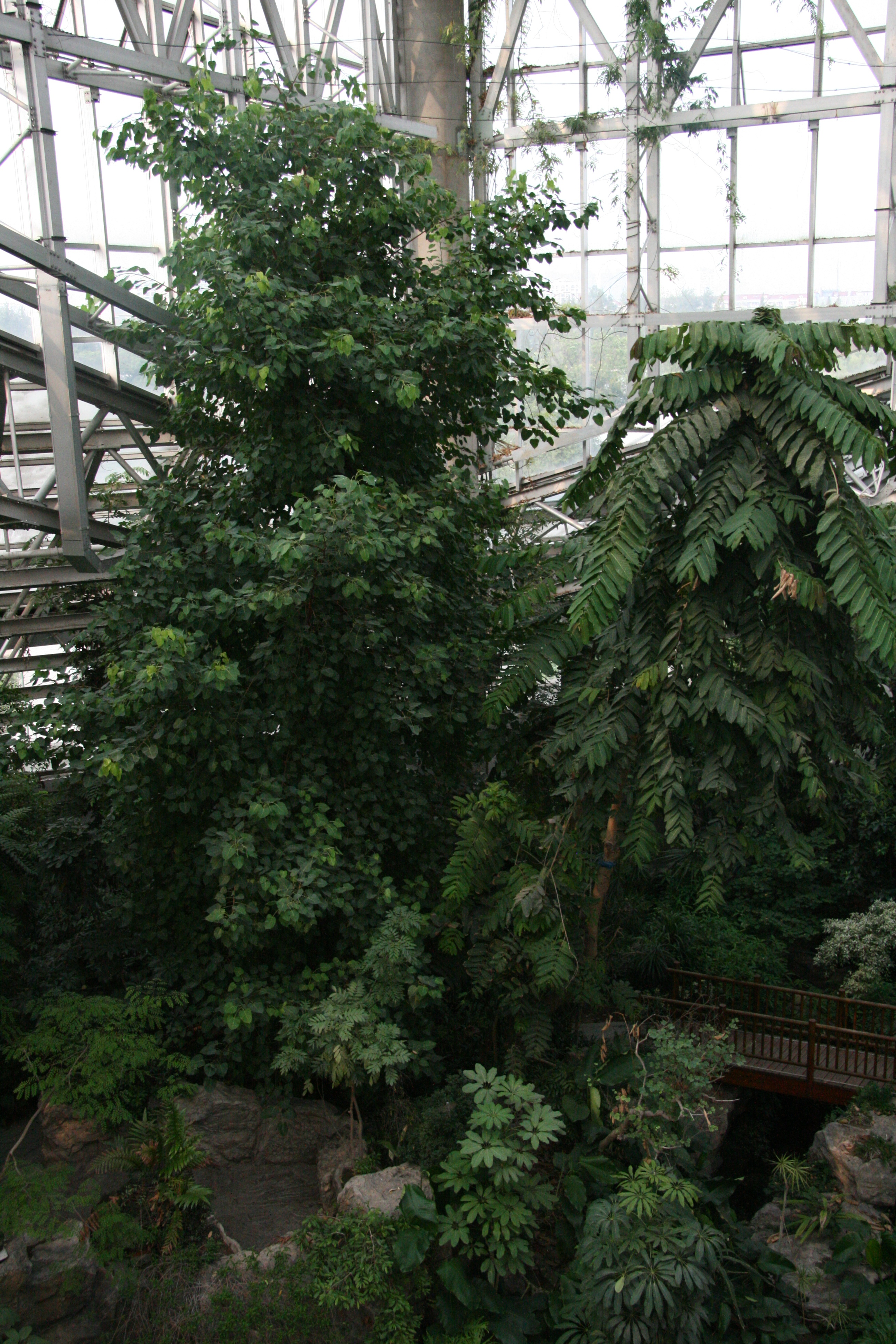 internal view inside tropicarium (looking across), Shanghai Botanical Garden